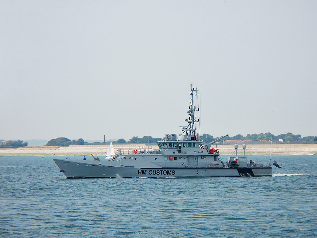 The UK Border Agency vessel HMCC Vigilant photographed at Portsmouth, UK. It is the 4th of the fleet of 42-metre class customs patrol vessels, built by Damen in the Netherlands, and delivered in 2004 (as HMRC Vigilant) to the then HM Customs and Excise.[1]